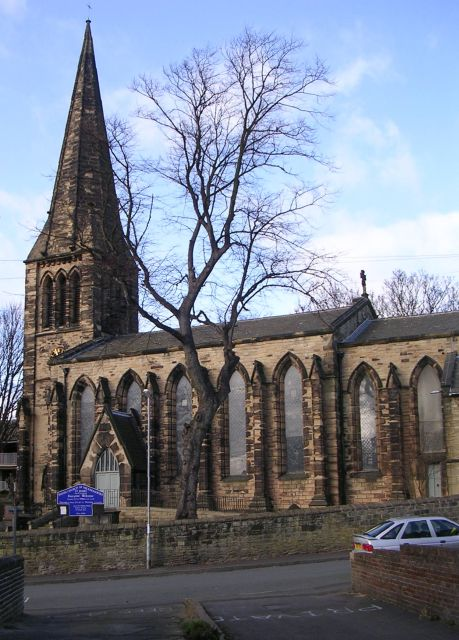 St James' parish church, Church Street, Heckmondwike, West Yorkshire, seen form the southeast